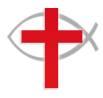 Summary The Christianity Award was created to recognize any editor who has made exceptional contributions to Christianity-related articles. Created using Adobe Photoshop CS2 on September 6, 2006. Feel free to modify the image.